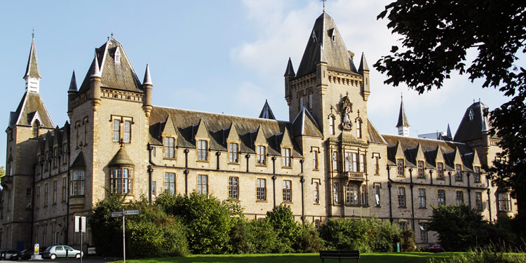 Victoria Patriotic Building on Wandsworth Common. Home to ALRA South